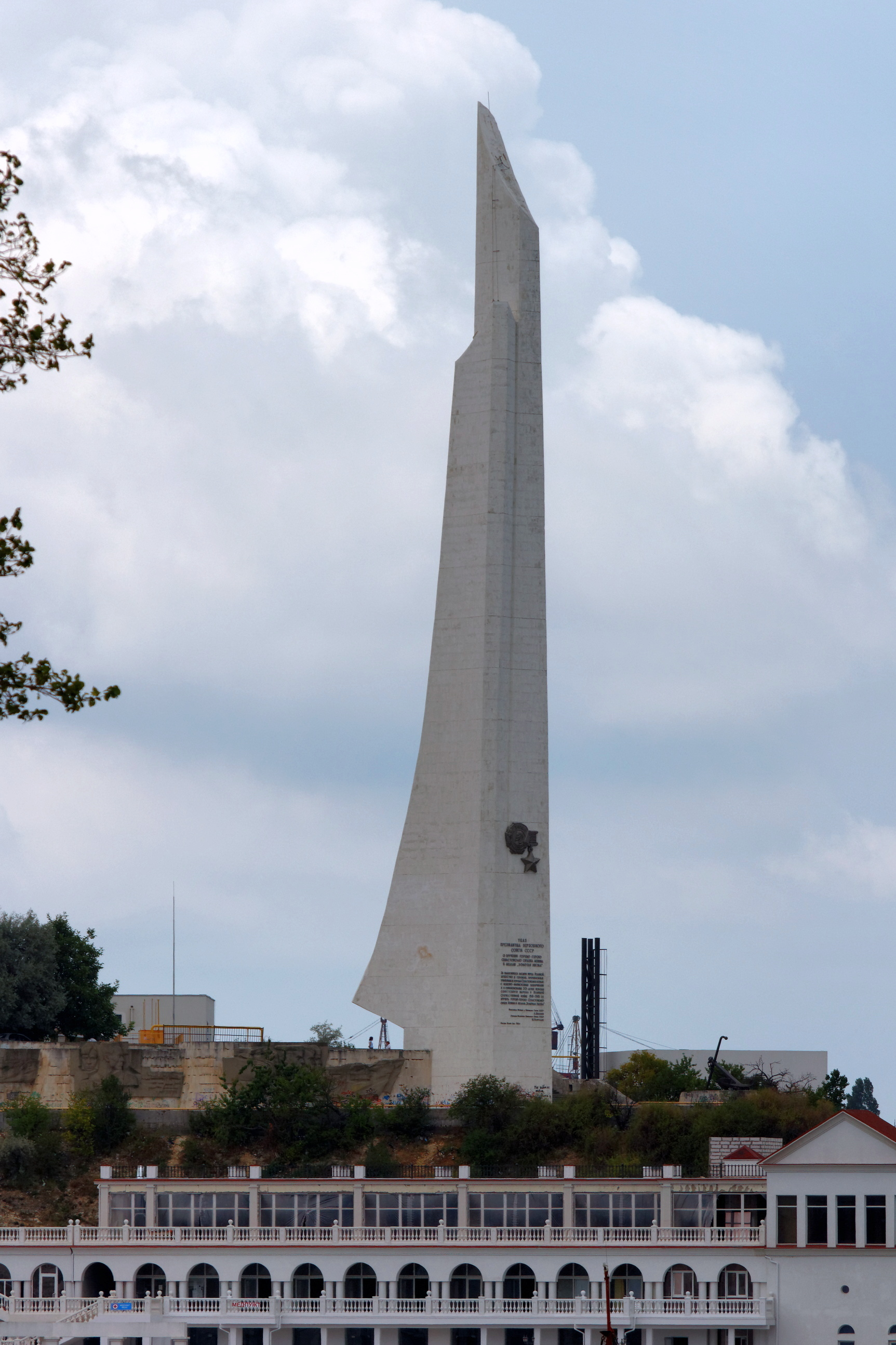 Sevastopol. Obelisk "Bayonet-sail"